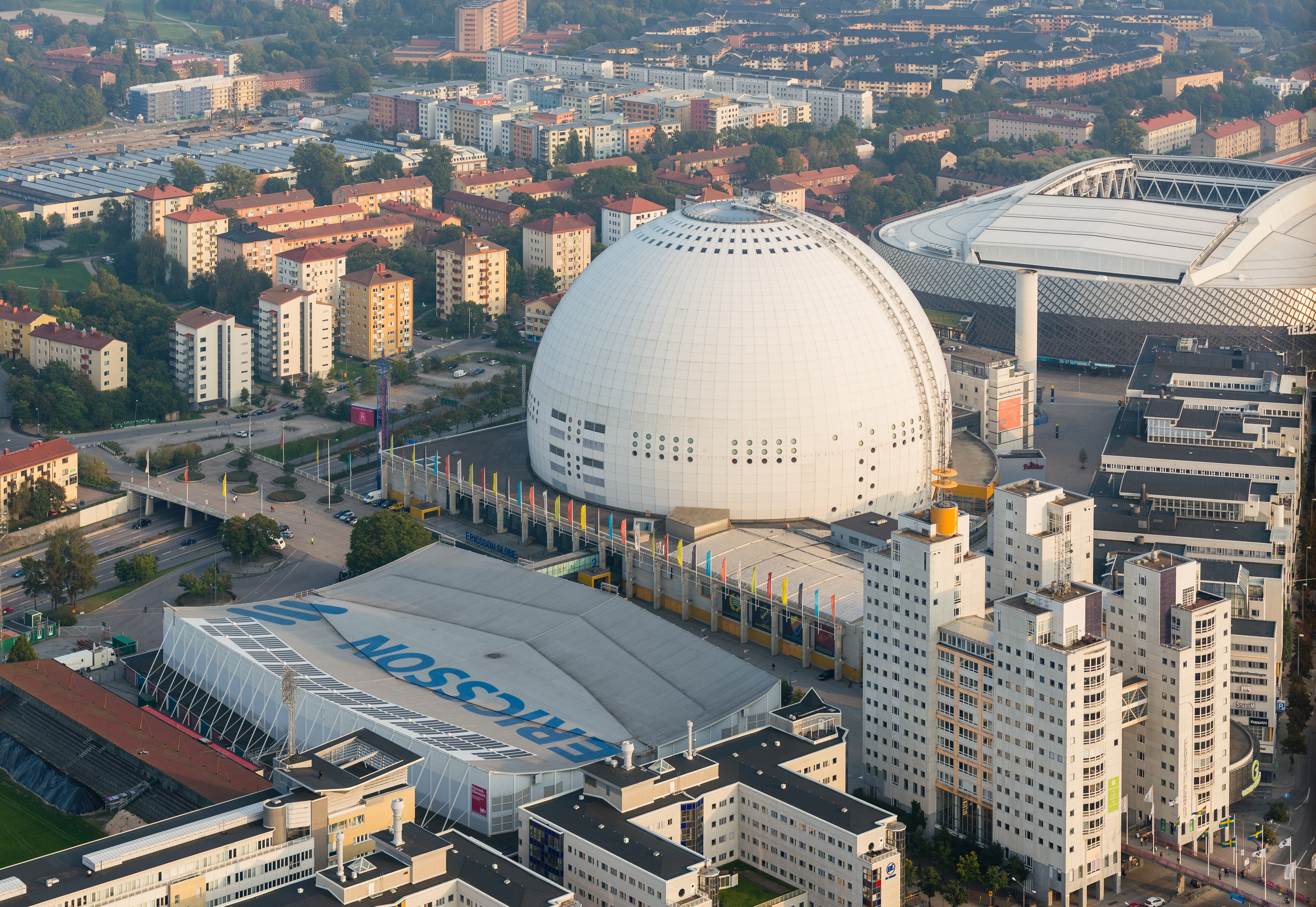 Stockholm Globe Arena